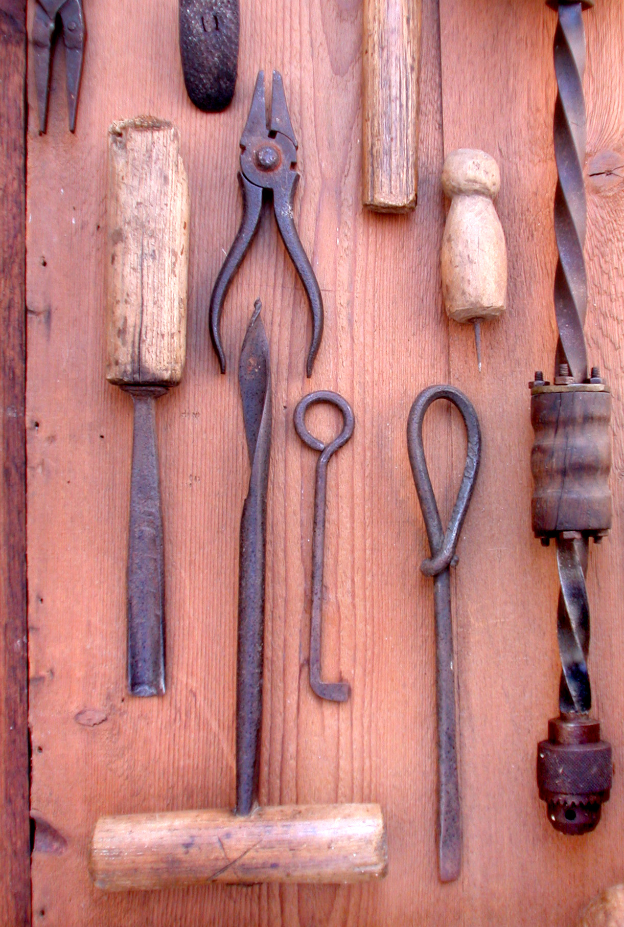 Old Hand tools - for woodworking, or others - 1910's years, South-Hungary (Hódmezővásárhely)